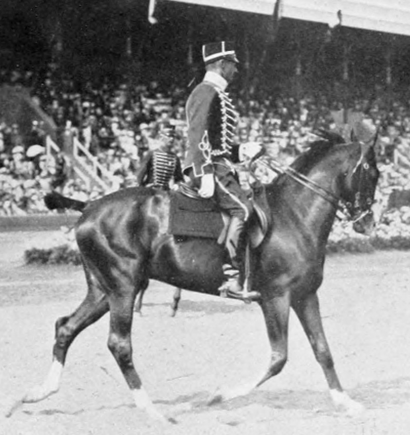 Carl Bonde (1872-1957) at the 1912 Summer Olympics